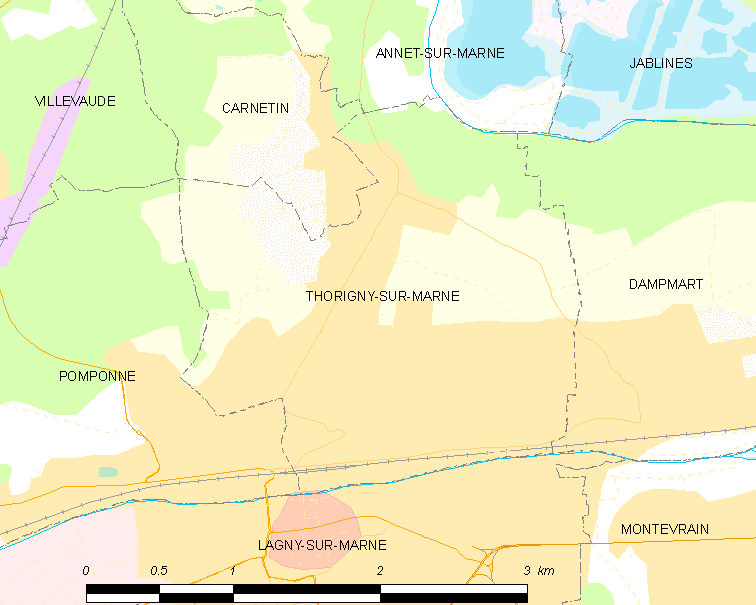 Map of French municipality Thorigny-sur-Marne